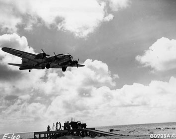 Drone B-17 used as a guided missile during World War II